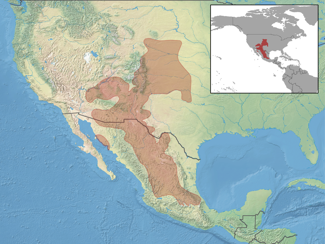 geographic distribution of Perognathus flavus